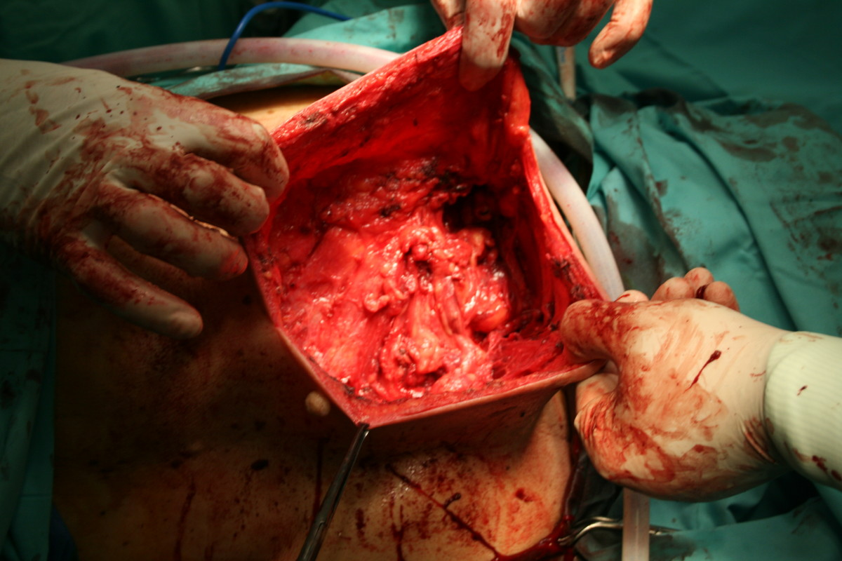 87 year old man with a liposarcoma. The area of the removed lesion.